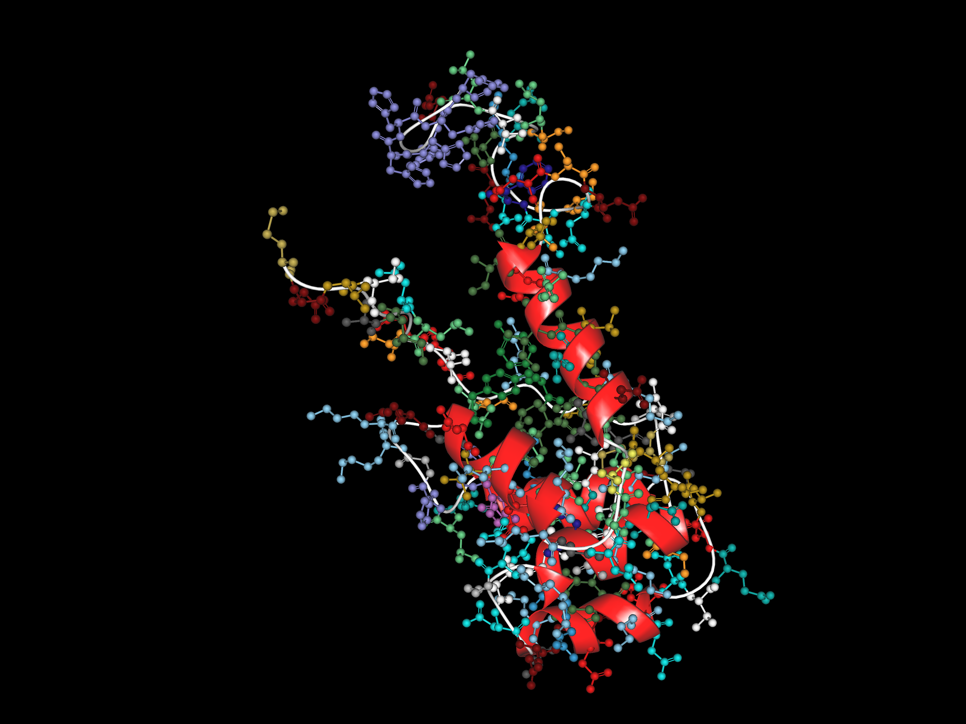 Secondary structure of Fas receptor ("death domain")